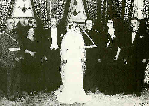 The wedding of the daughter of İzzettin Çalışlar, 1933Türkçe: İzzettin Çalışlar'ın kızının düğünü, 1933